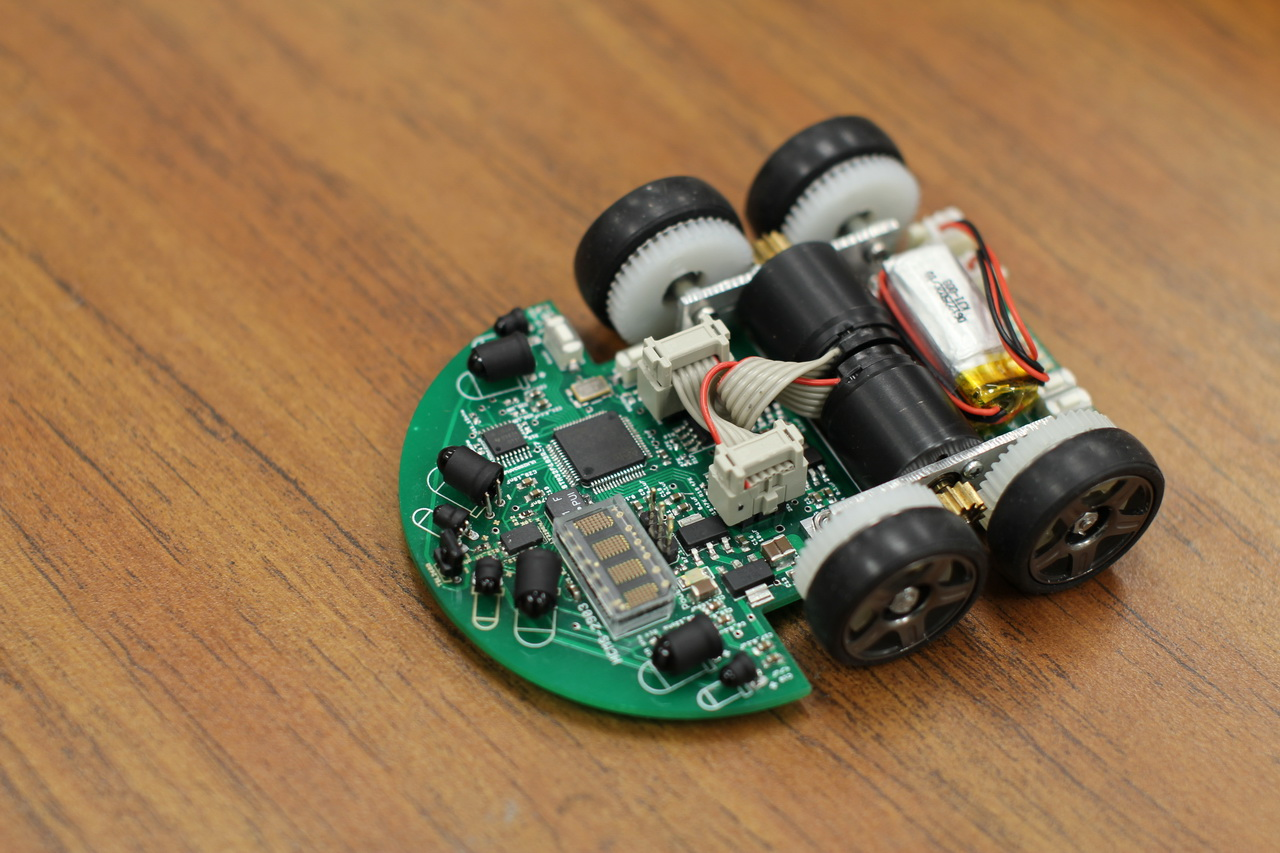 Micromouse "Green Giant V1.3", made by Luzhou Ye ( details